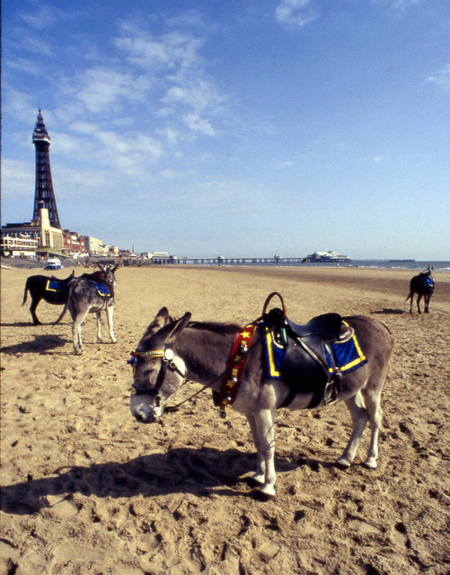 Donkeys at Blackpool Blackpool Tower can been seen.